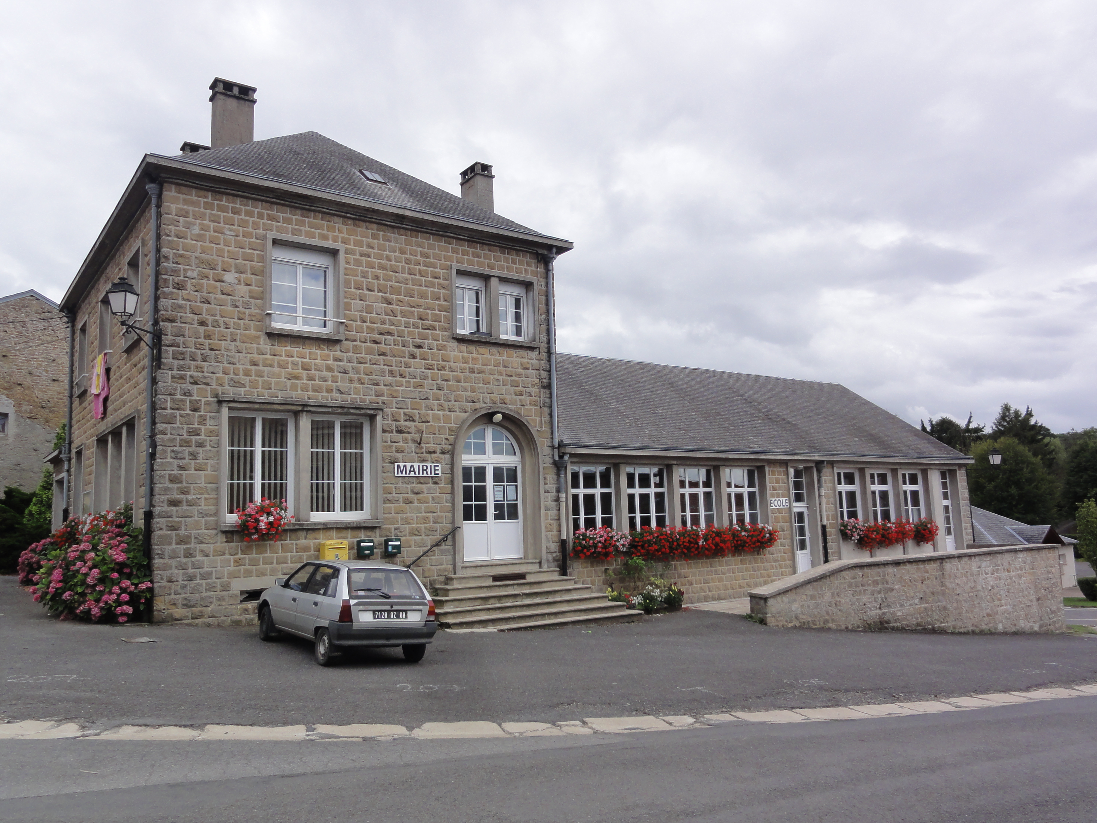 Arreux (Ardennes) mairie